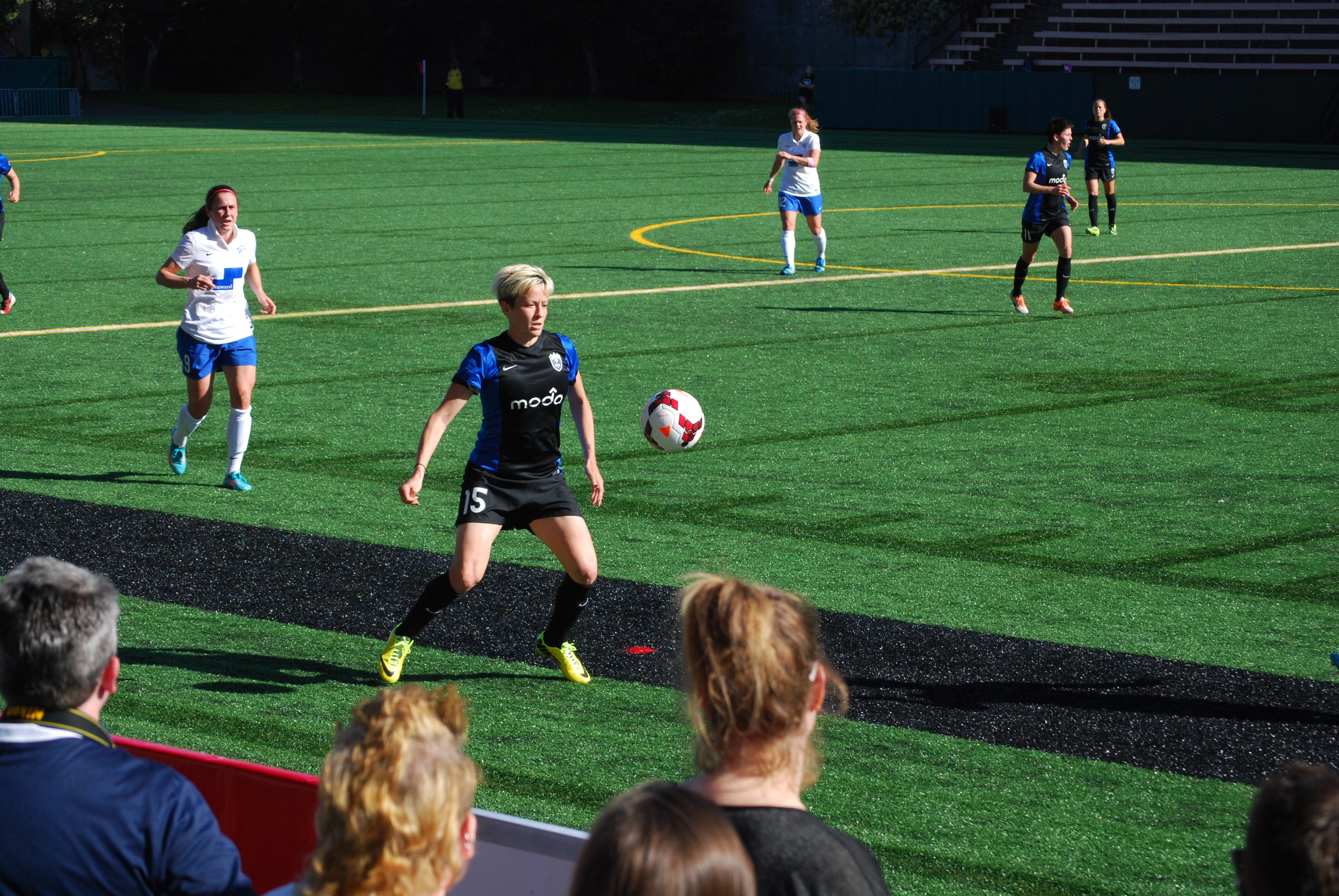 Seattle Reign FC vs Boston Breakers, April 13, 2014 at Memorial Stadium in Seattle, Washington